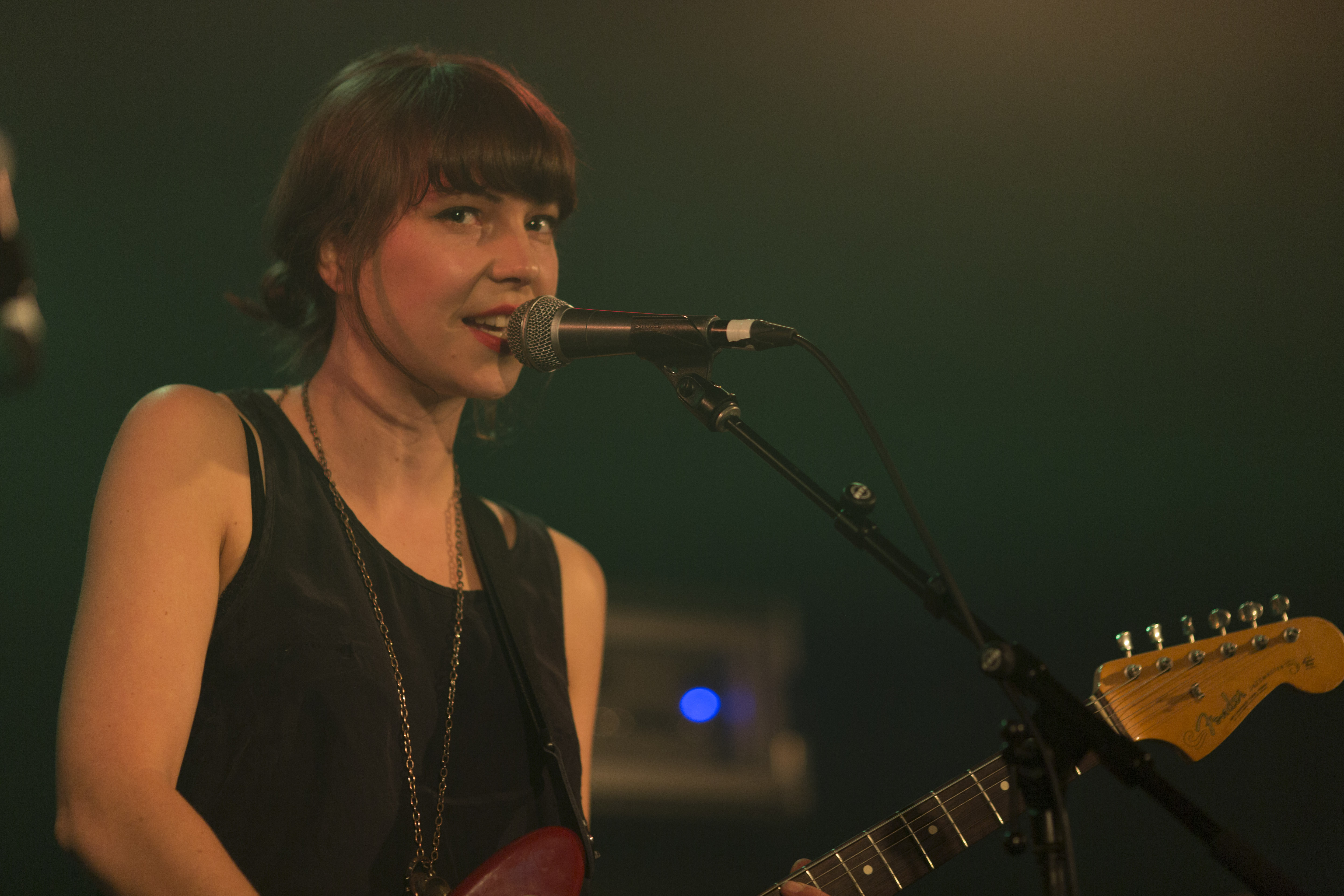 August 28, 2014